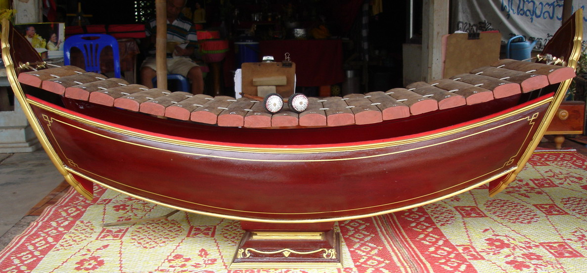 Ranad ek, Thai wooden xylophone. It featured 21 keys struck by mallet. This kind of ranad is easy to play by beginners.